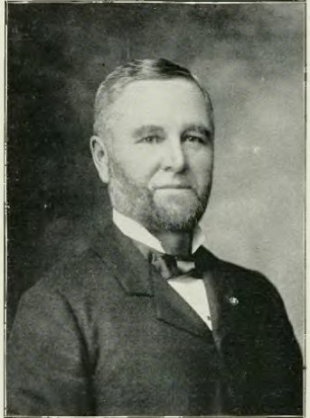 Portrait in History of Iowa From the Earliest Times to the Beginning of the Twentieth Century